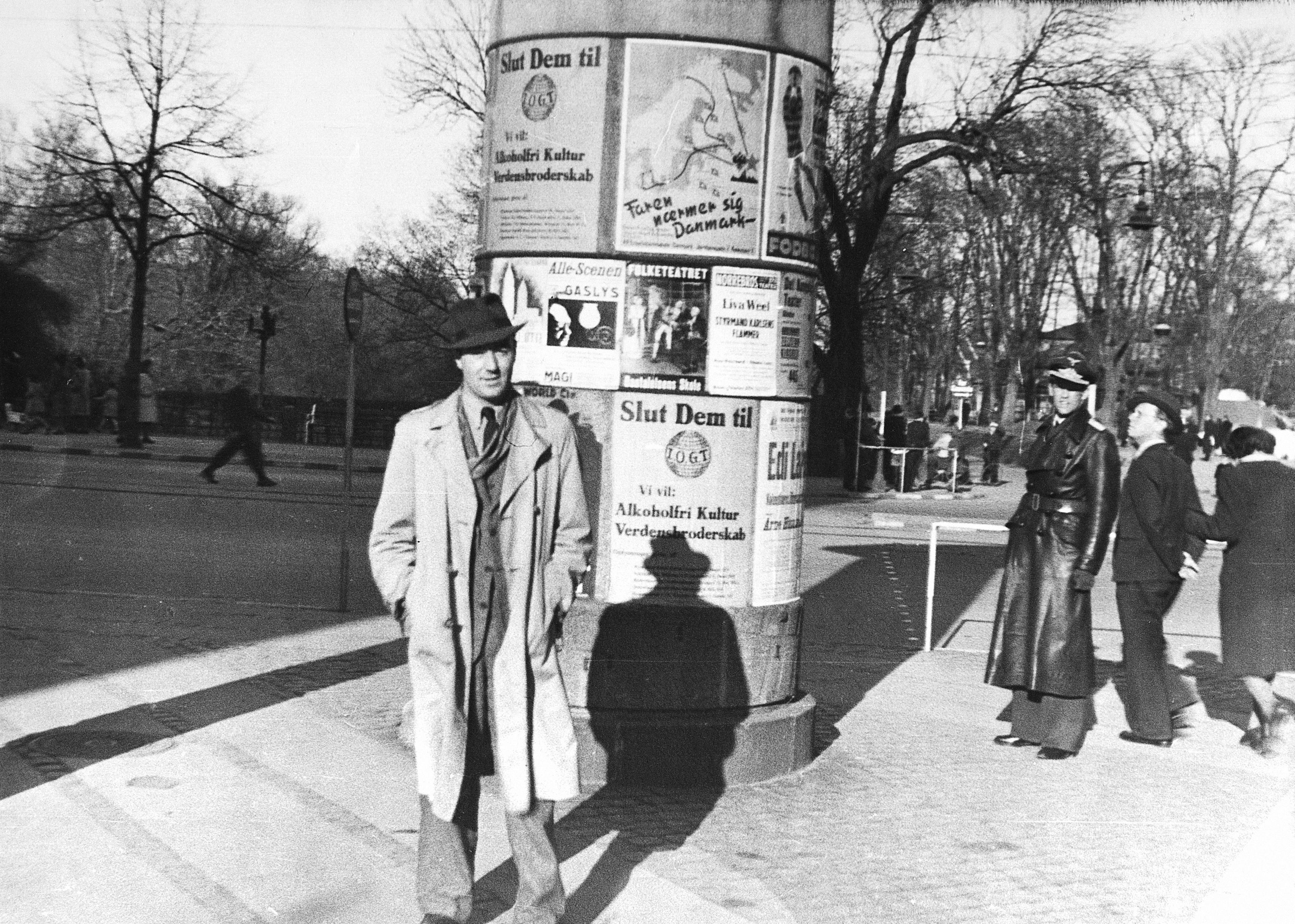 The American pilot Major J. D. McFarlane ( in light coat) had to make an emergency landing with his Mustang fighter by Søllested on Lolland . Here he is seen in Copenhagen and on his way to Sweden. In the picture is a German pilot officer (right).